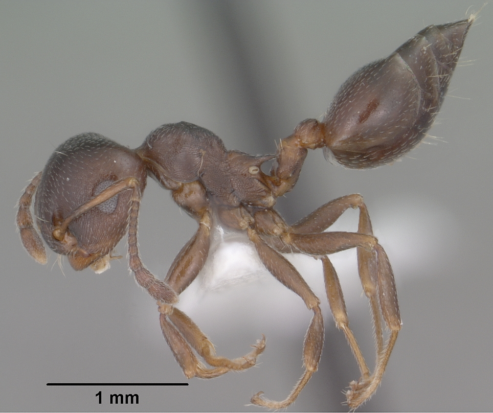 Profile view of ant Crematogaster isolata specimen casent0102832.